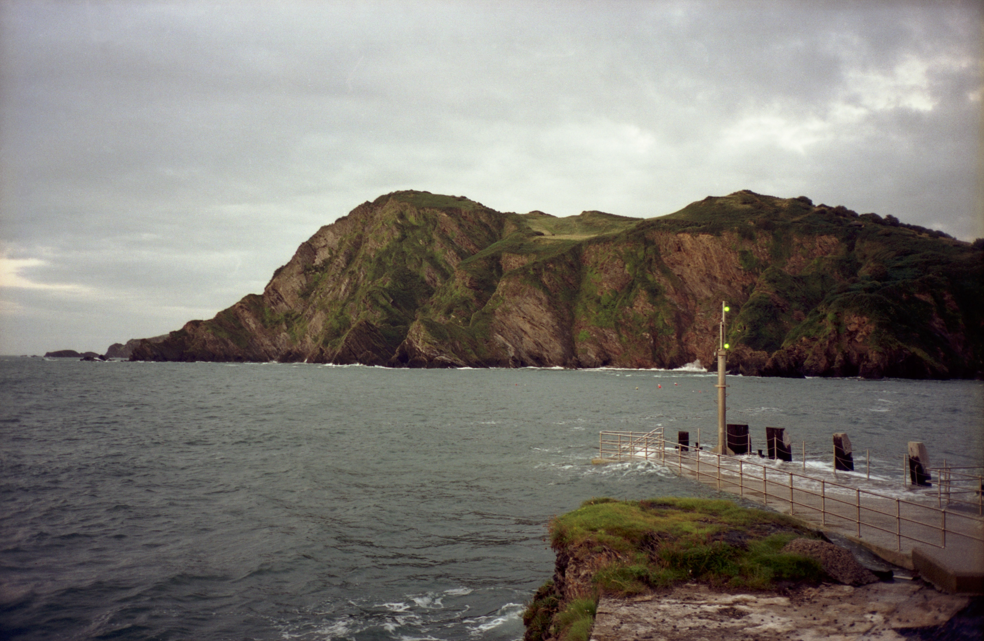 Hillsborough Local Nature Reserve at late evening (high tide), Ilfracombe, Devon, UK.